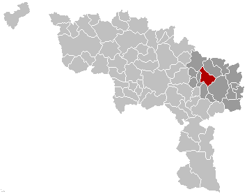 Map, municipality belgium Courcelles